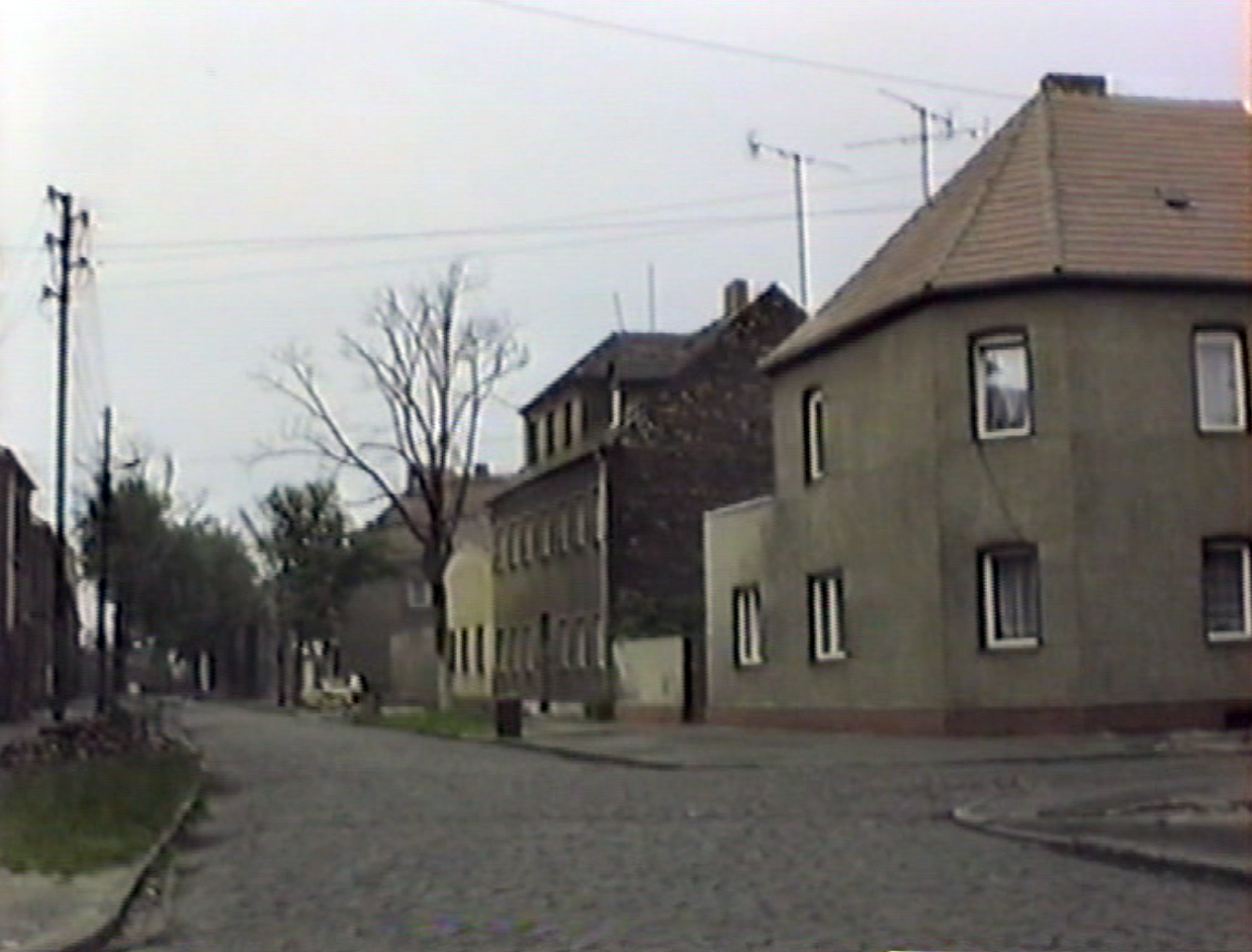 A street view in Bitterfeld, then German Democratic Republic, in 1988